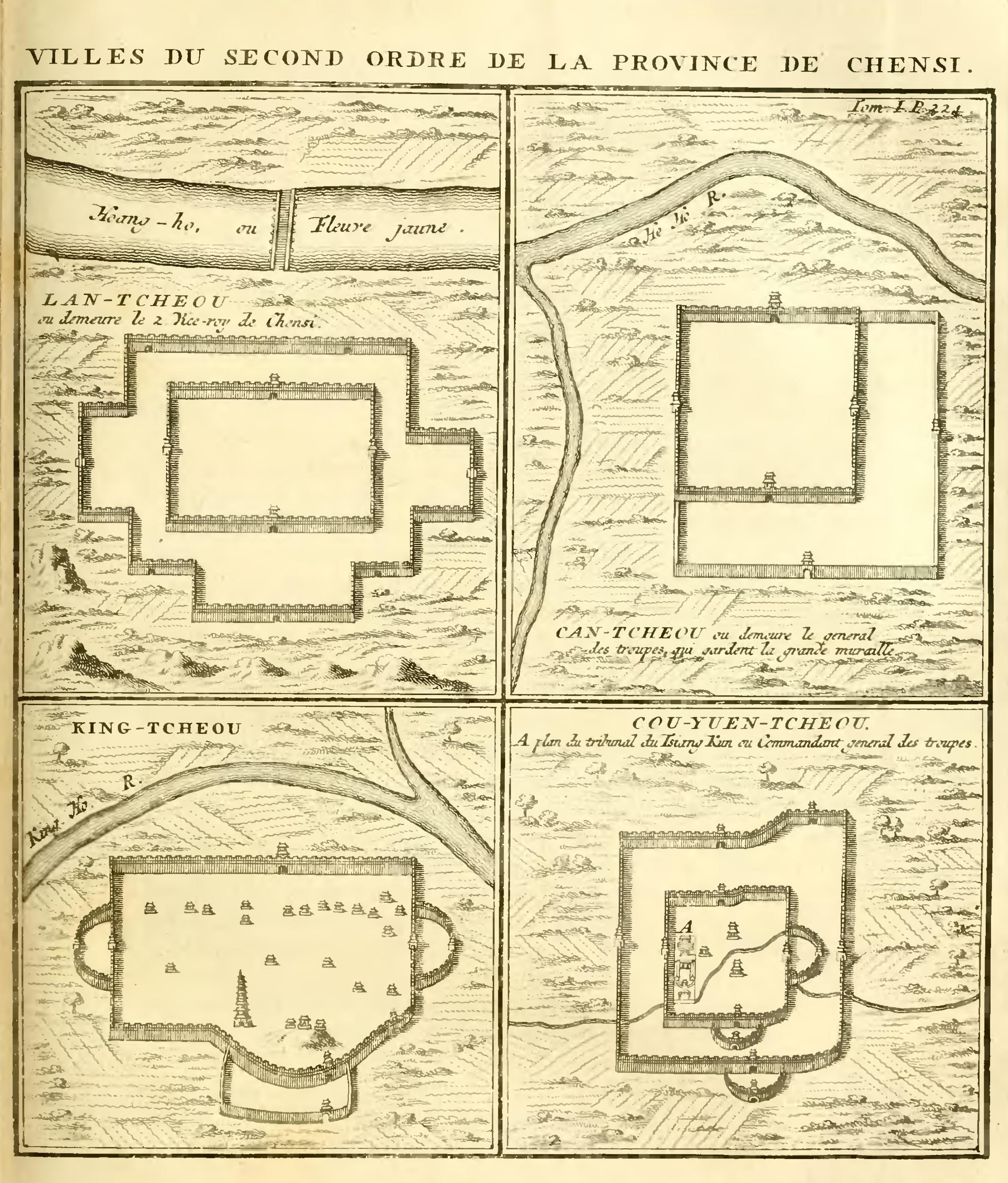 Second-order towns of the Viceroyalty of Shaan-Gan: Lanzhou (蘭州); Ganzhou (甘州), now a district of Zhangye; Jingzhou (涇州), now known as Jingchuan; and Guyuanzhou (固原州), now the Yuanzhou District of Guyuan in Ningxia.